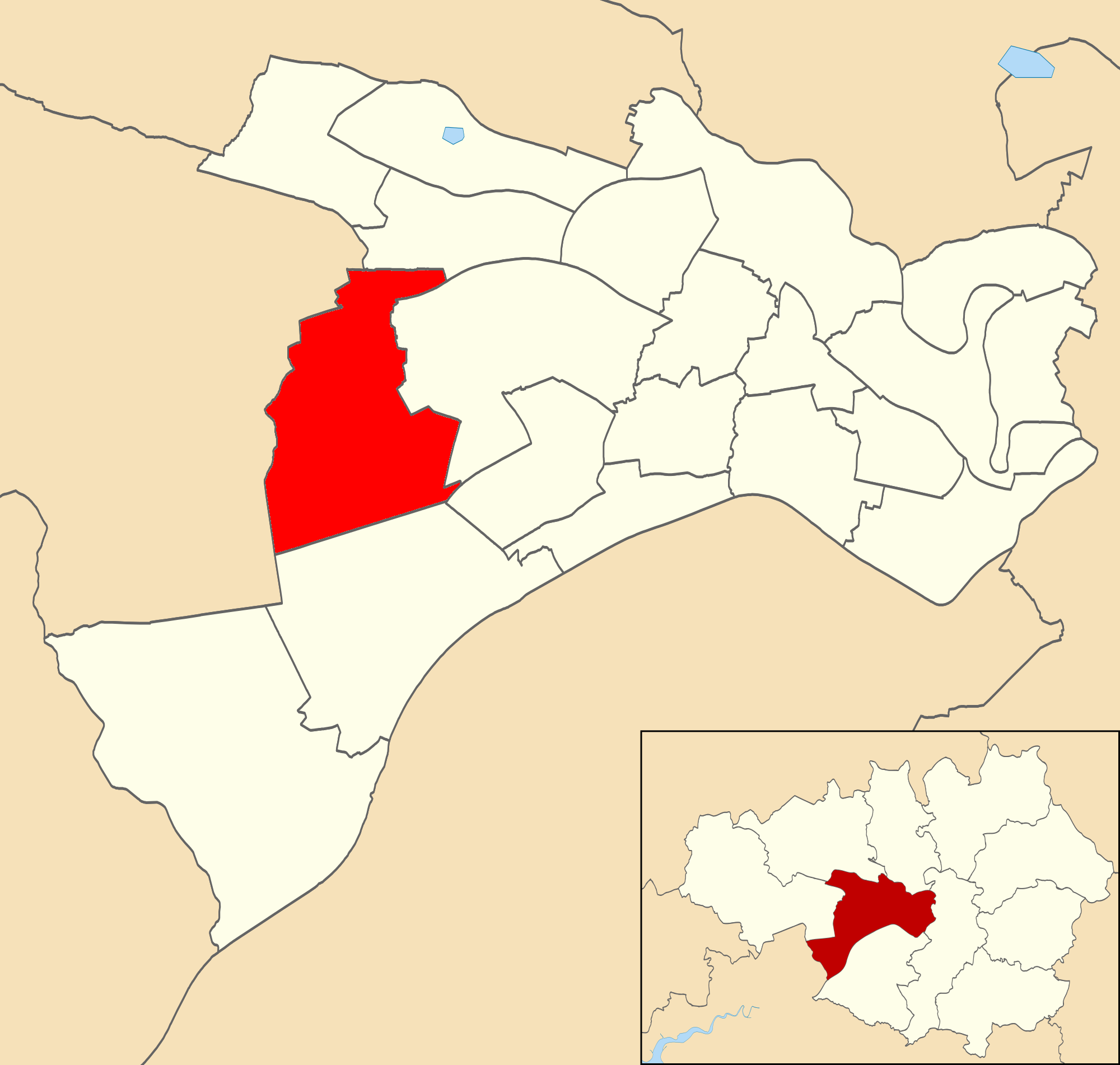 Map showing location of Boothstown and Ellenbrook ward within Salford City Council.